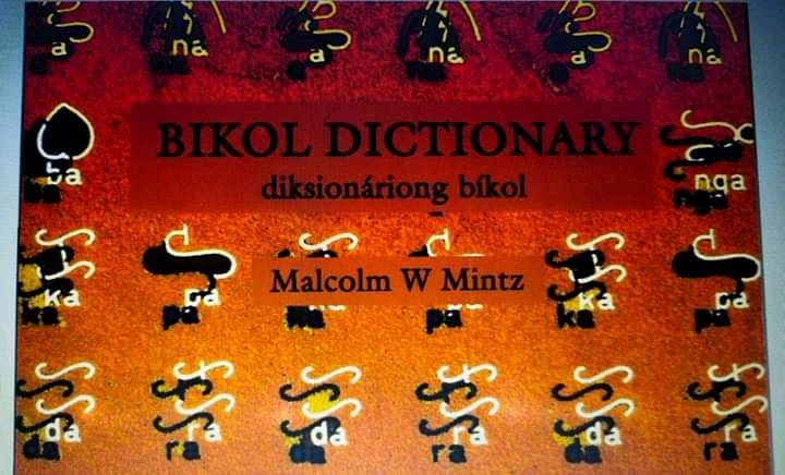 this is the front cover of Malcolm W. Mintz's Bikol Dictionary shows the basahan script.